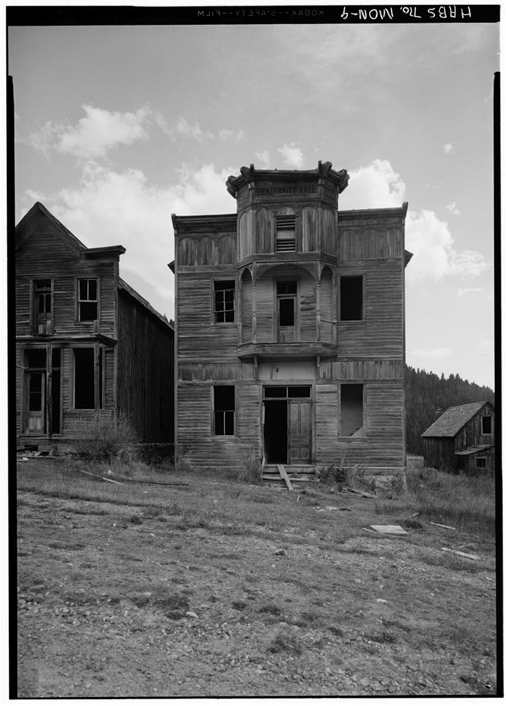 Fraternity Hall a meeting hall contructed in 1893 in Elkhorn, a ghost town in Jefferson County, Montana.